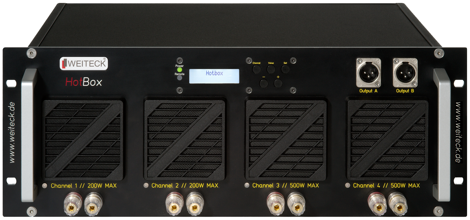 Weiteck HotBox 2225 Programmable Dummy Load